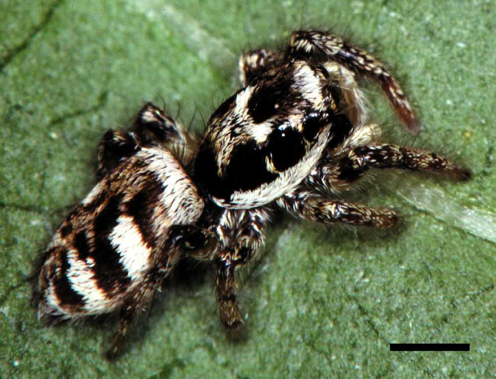 Female Salticus scenicus jumping spider from Minnesota, USA